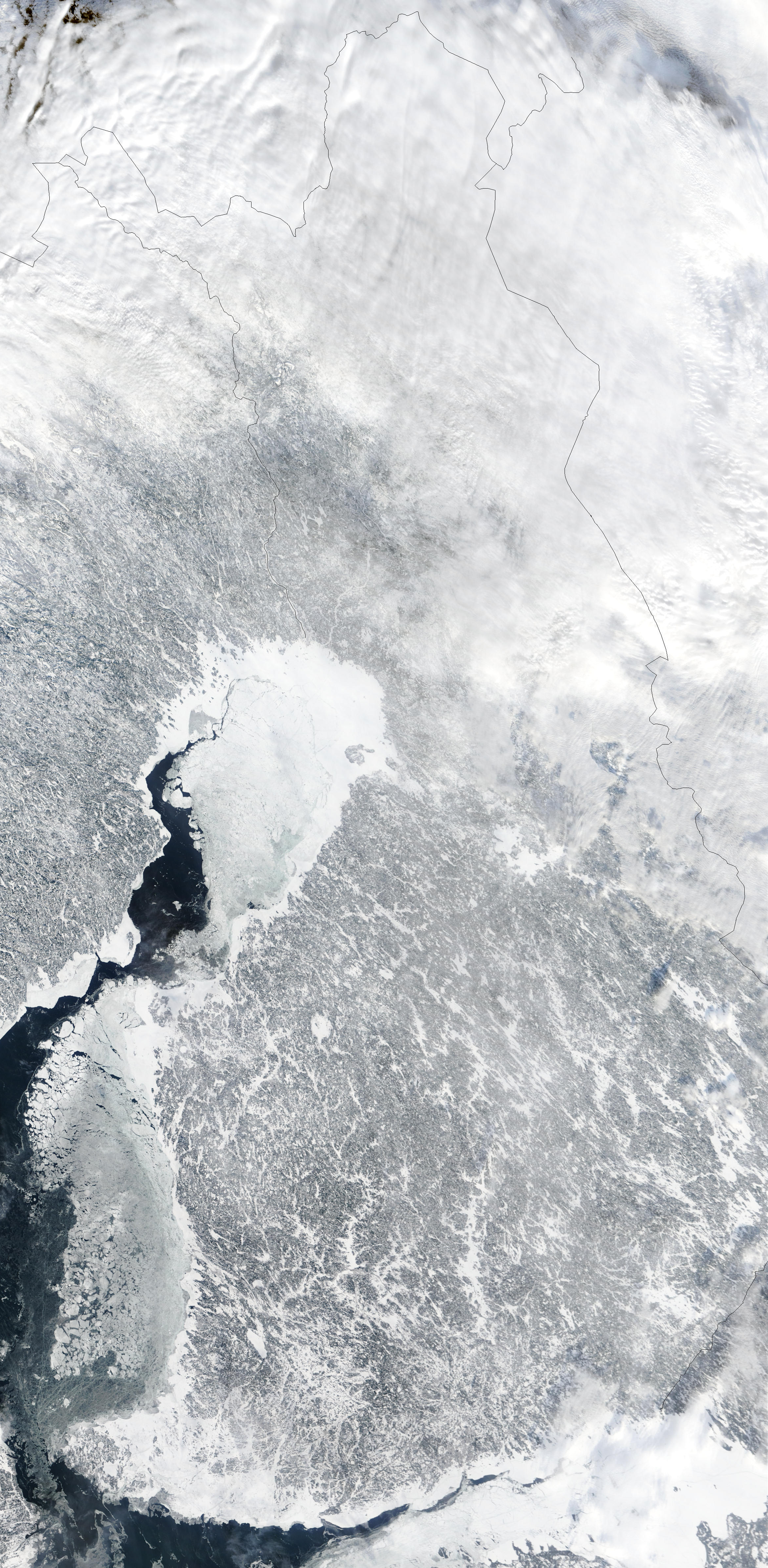 Satellite picture of Finland in February.